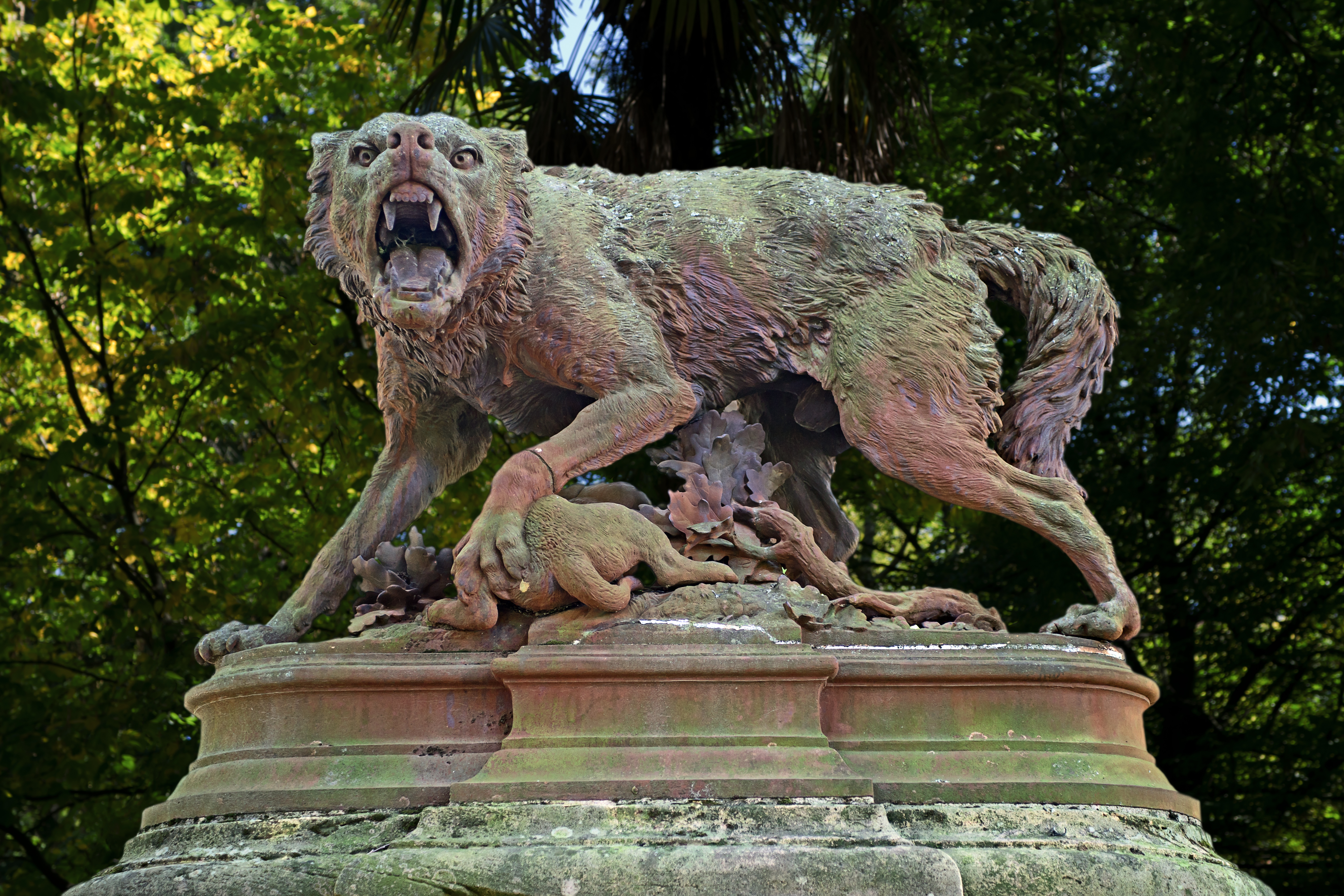 Pierre Louis Rouillard, Antoine Durenne, founder. Cast iron (the copy group of bronze statues, yard Lefuel, Louvre). Work acquired by the city of Toulouse during the Exhibition of 1865. Locality: Entrance to the Garden of the “Grand Rond” in Toulouse.